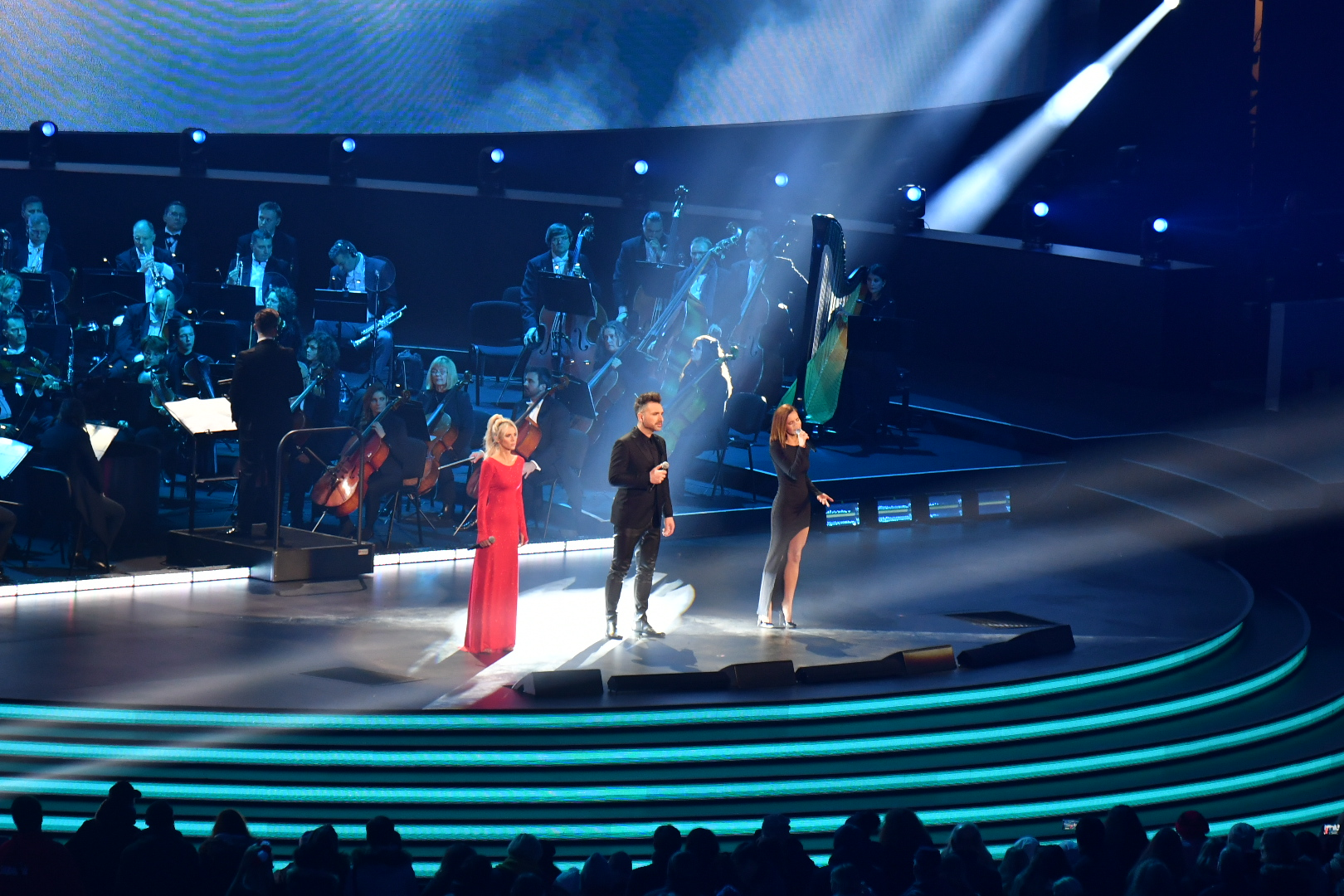 Concert for Independence. November 10, 2018. Warsaw. Poland.